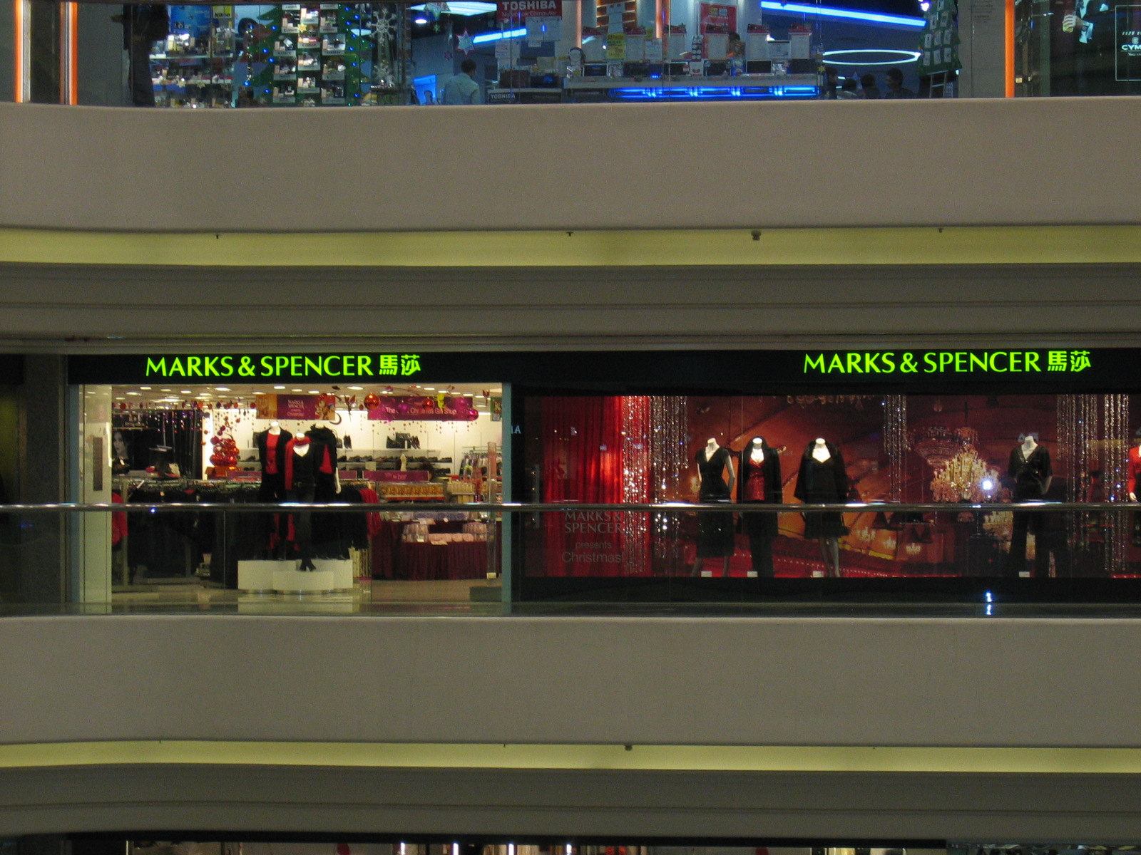 A Marks & Spencer store at Times Square, Hong Kong.